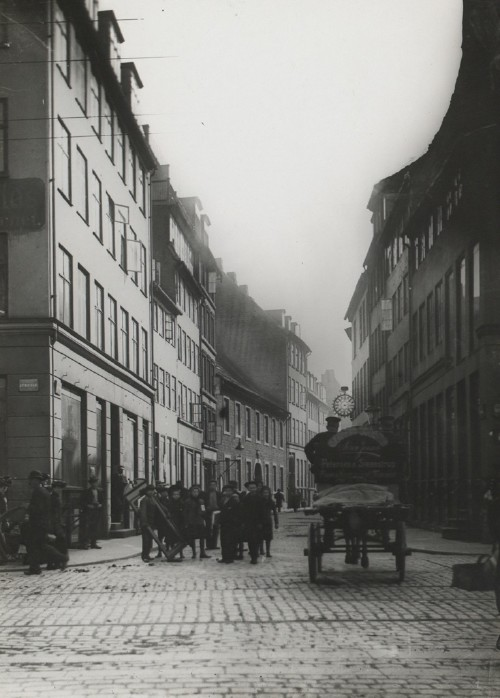 Møntergade in c. 1900 in Copenhagen, Denmark. The eastern house row (right) was demolished in 1907 and the western (left) in 1908. Poul Fechtels Hospital is the low building to the ledt.